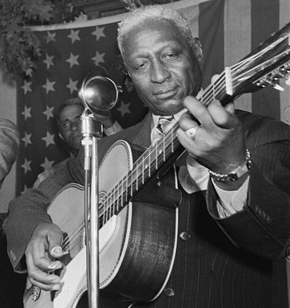 Cropped version of a portrait of Bunk Johnson, Leadbelly, George Lewis, and Alcide Pavageau, Stuyvesant Casino, New York, N.Y.